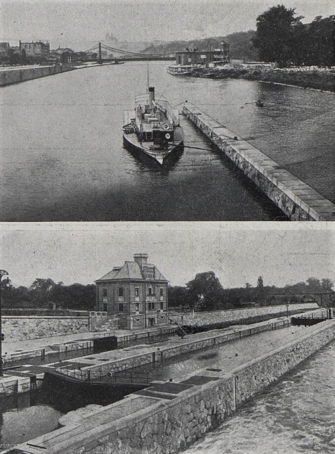 Lock chamber Prague Štvanice, 1913